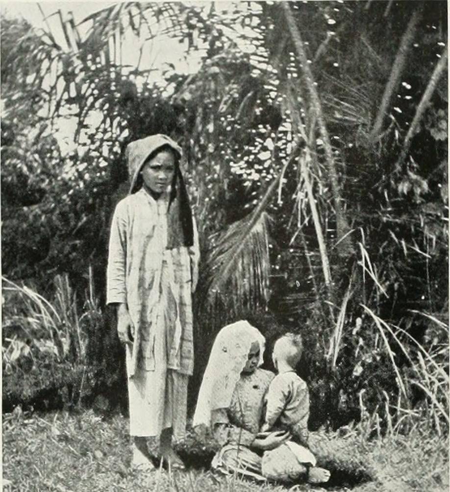 Identifier: womenofallnation01joyc Title: Women of all nations, a record of their characteristics, habits, manners, customs and influence; Year: 1908 (1900s) Authors: Joyce, Thomas Athol, 1878-1942 Thomas, Northcote Whitridge, 1868- Subjects: Women Publisher: London, New York (etc.) : Cassell and Company, limited Text Appearing Before Image: RESPECTABLE MARRIED WOMAN OF KELANTAN. Wearing a sarong oF Kelanlan pal-tern, surmounted by the typicalbroad sash (kMn lepas), girtabout the breasts. she is made to lie day andnight, throughout the entireperiod of her confinement; in-deed, the \-ery wood requiredfor the fire of this roasting-jilace often takes severalweeks work to get together.This remarkable institutionwas the invention of thei^oEidan, or professionalwise-woman, and its resulthas been known in somecases to produce mentalaberration lasting for somemonths afterwards, andmust, in cases of any diffi-culty, have been frequentlyfatal. Even apart from this,both the person of the pa-tient and that of her husband were encompassed byan extraordinary body ofpetty restrictions and pro-hibitions, which it must cer-tainly be exceedingly tryingto have to observe under thesevere conditions just de-scribed. Not only is sheabsolutely prohibited fromreposing upon her own 194 WOMEN OF ALL NATIONS Text Appearing After Image